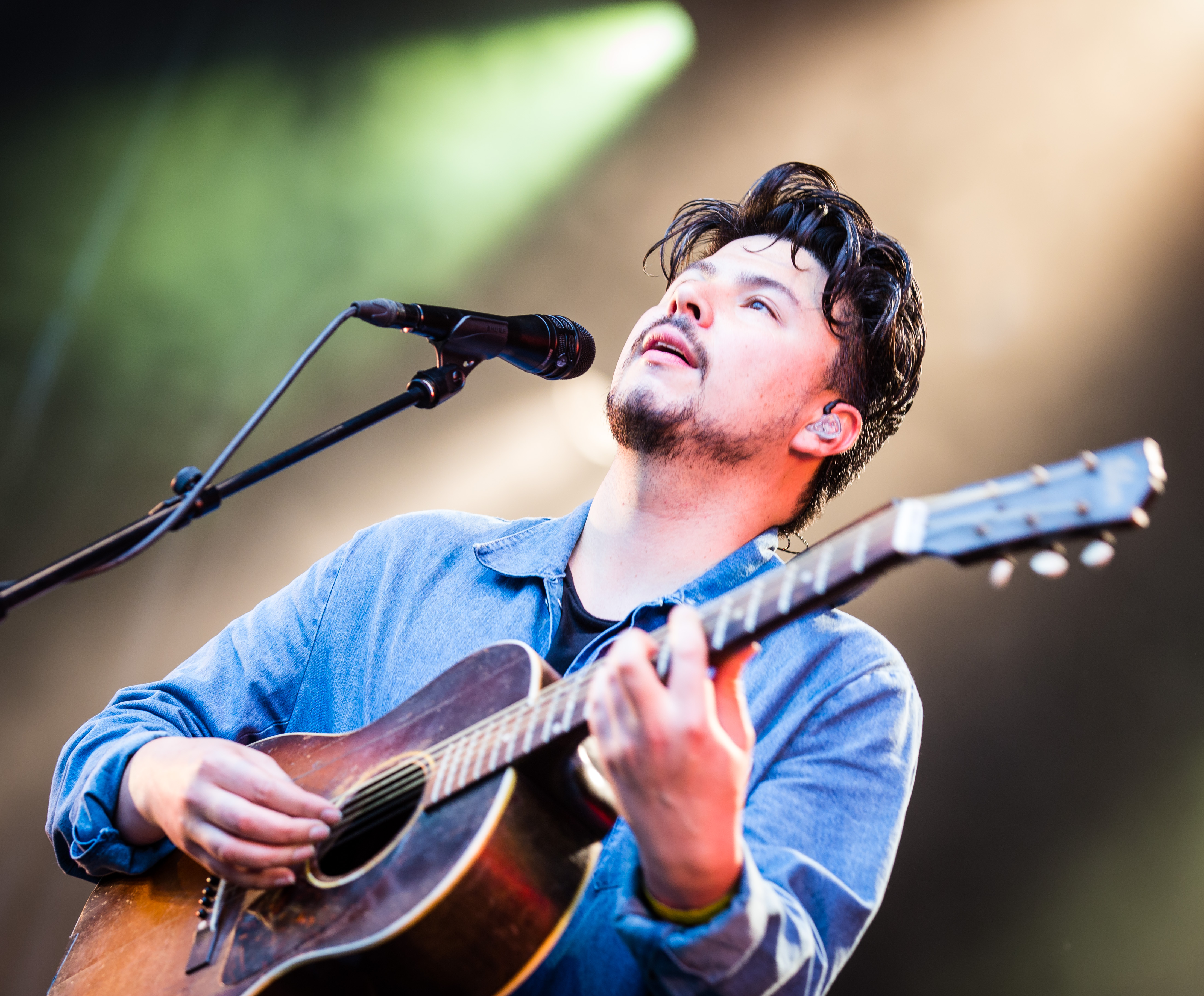 Jamie Woon performs at Piknik i Parken in Oslo on 26. June 2016. Lineup:Jamie Woon (guitar / vocal)Unidentified (keyboard)Unidentified (drums)Unidentified (bass)Unidentified (vocal)Unidentified (vocal)